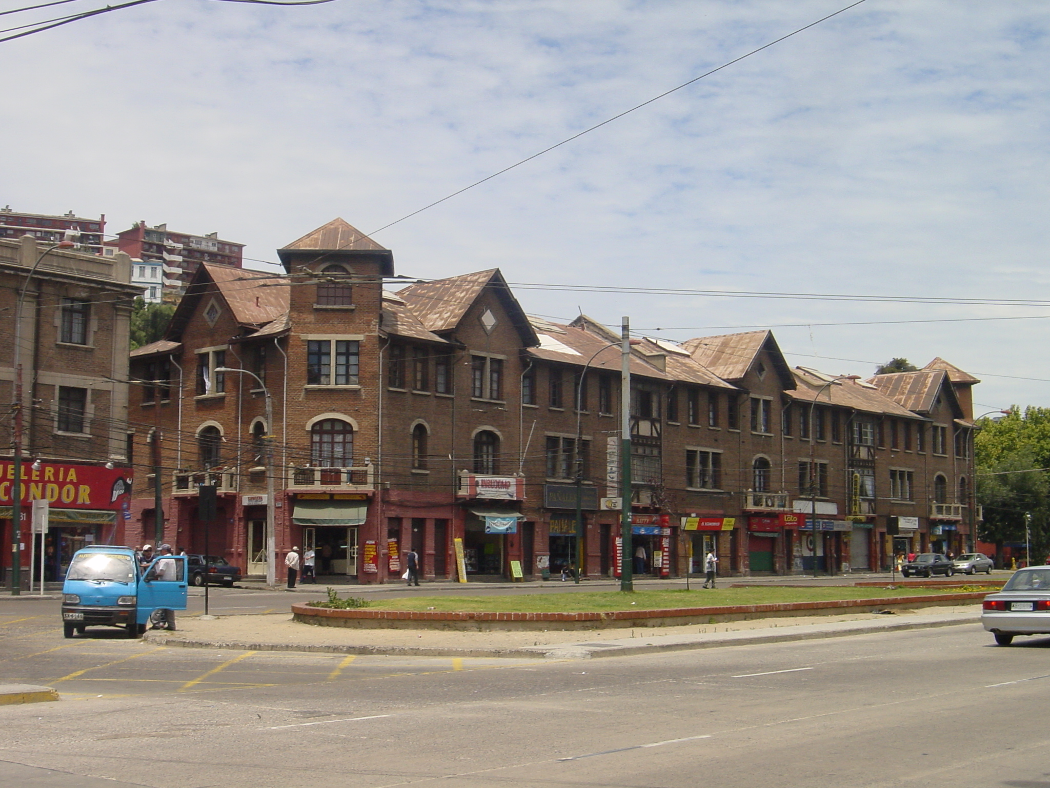 This row of shops is at the junction of Avenida Argentina and Quito.